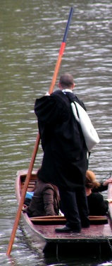 Punting along the Cam in academic dress after a graduation ceremony. Photo by Bob Tubbs 2 April 2005.